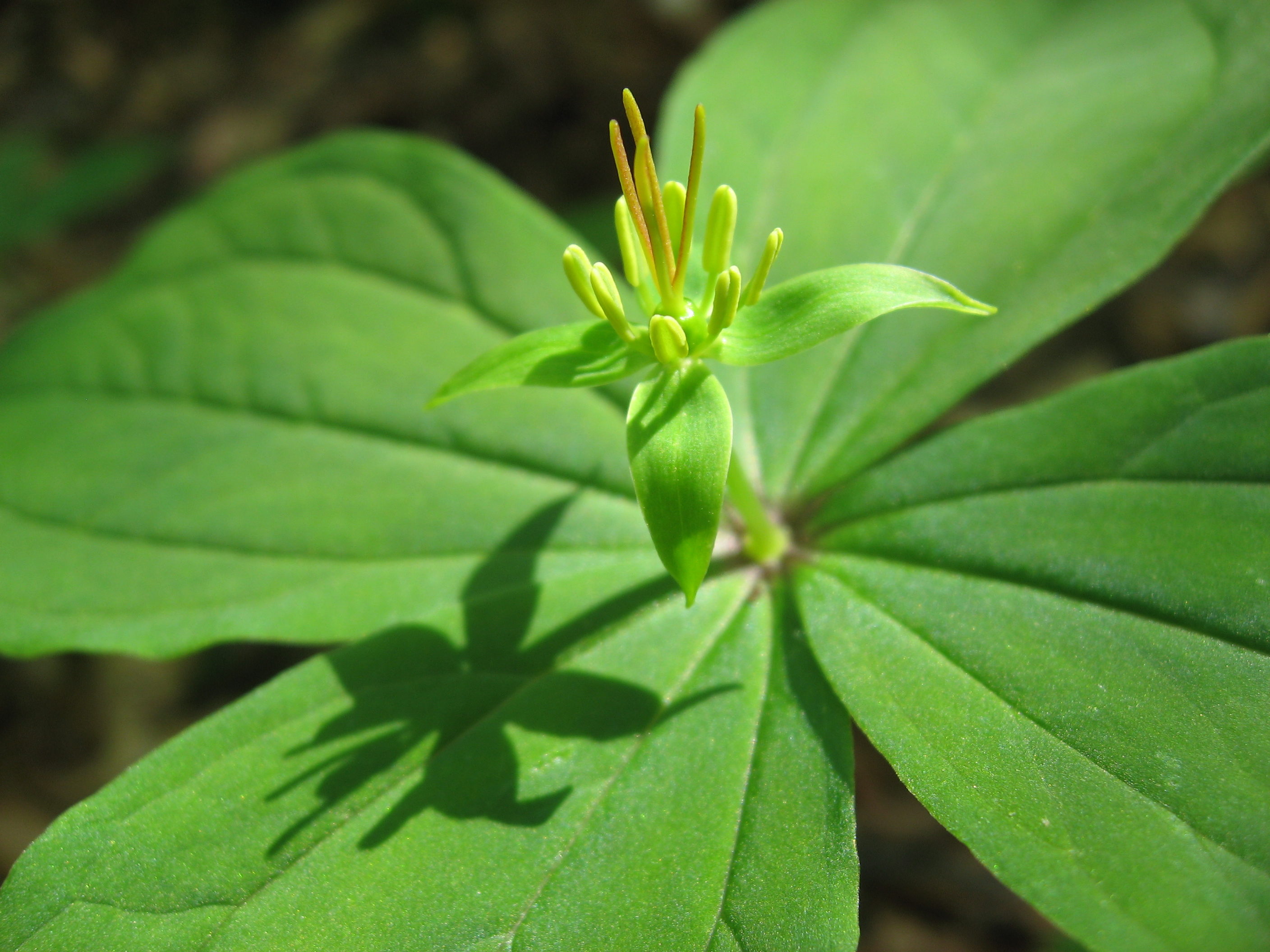 Paris tetraphylla, Aizu ares, Fukushima pref., Japan